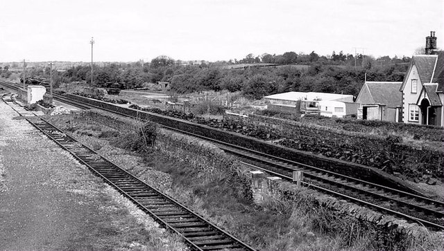 Siding, Tanderagee station. Although closed Tanderagee station had a temporary siding, on the down side, to facilitate track relaying.